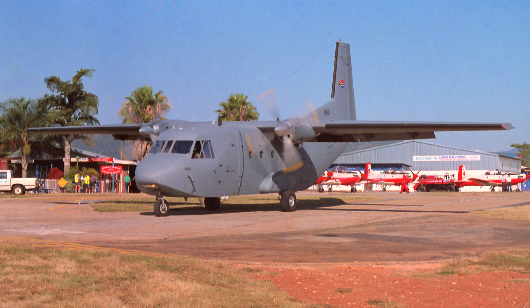 SAAF C-212-200 8010